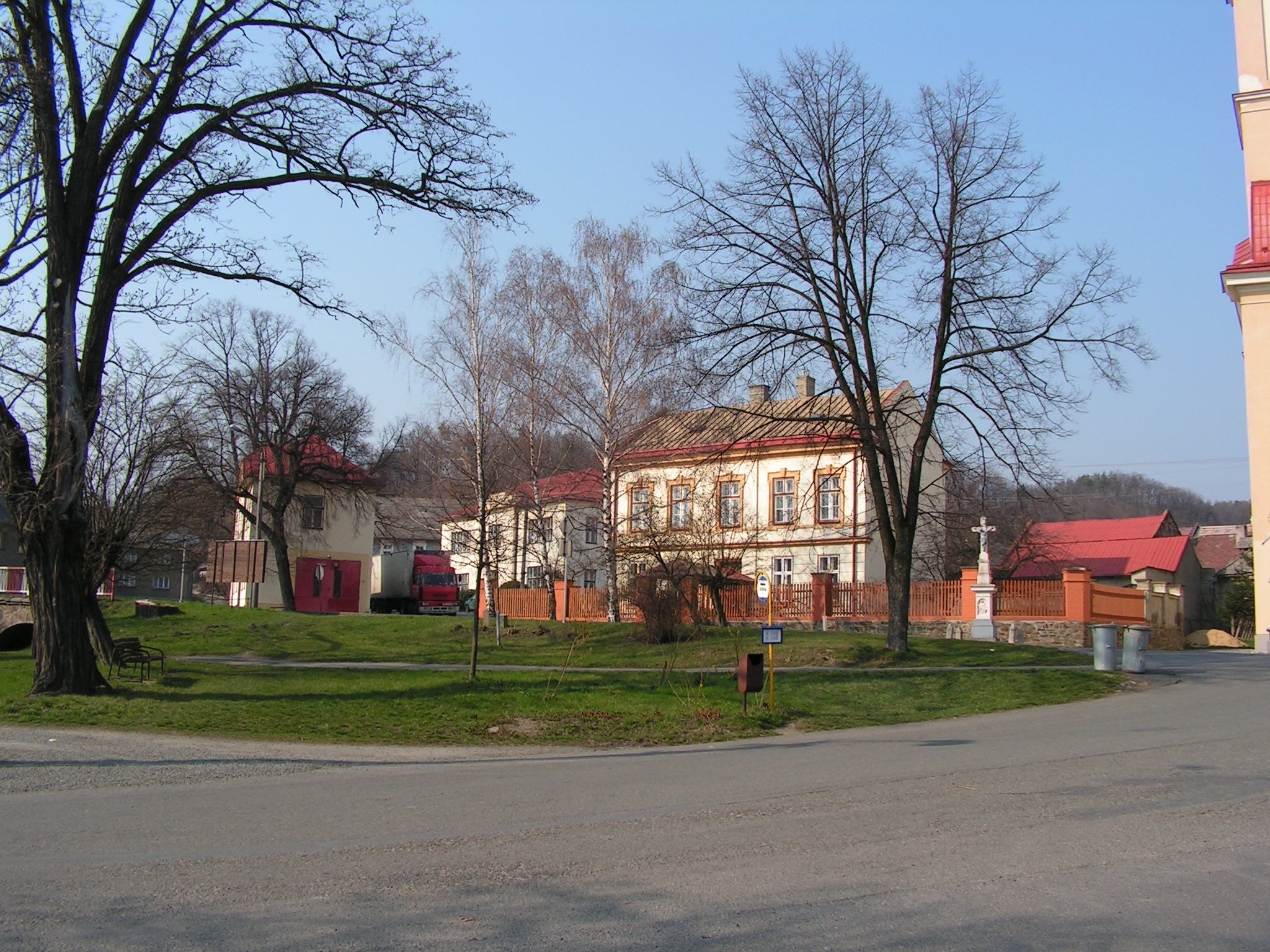 Dolní Újezd, Přerov District, Czech Republic. Village square.